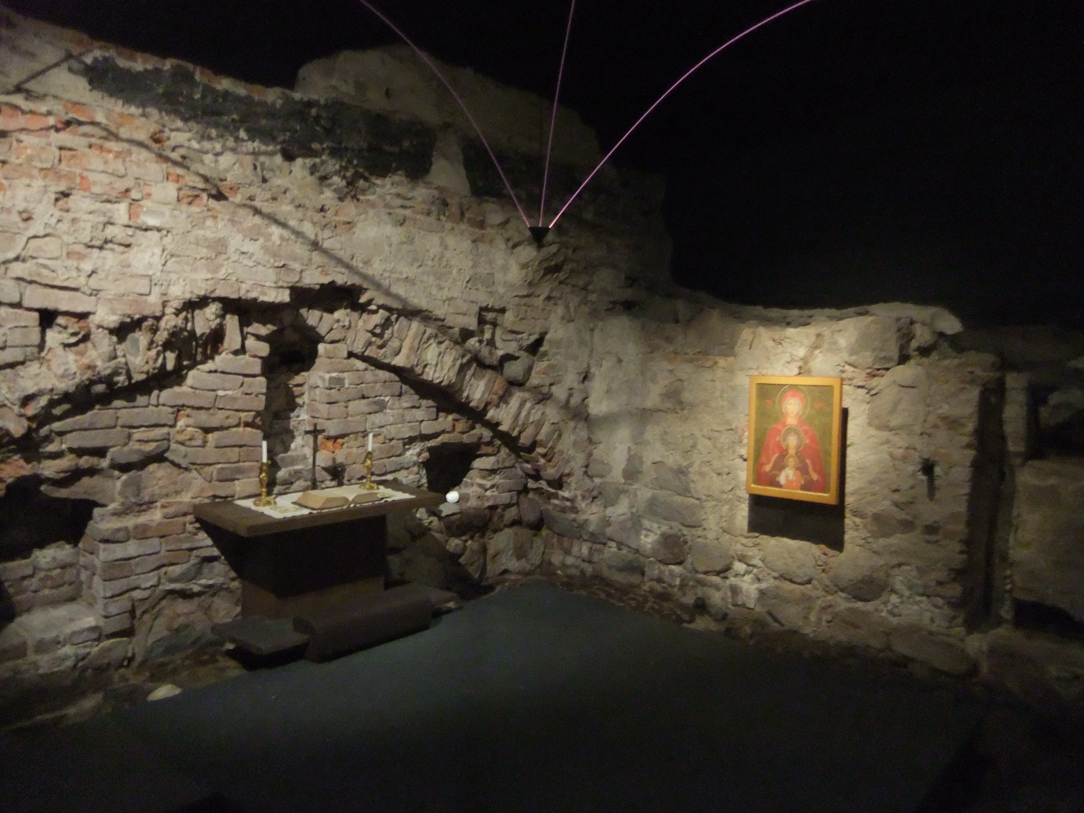 Chapel of St. Anna established in one of the medieval cellars in Aboa Vetus & Ars Nova Museum in Turku, Finland.